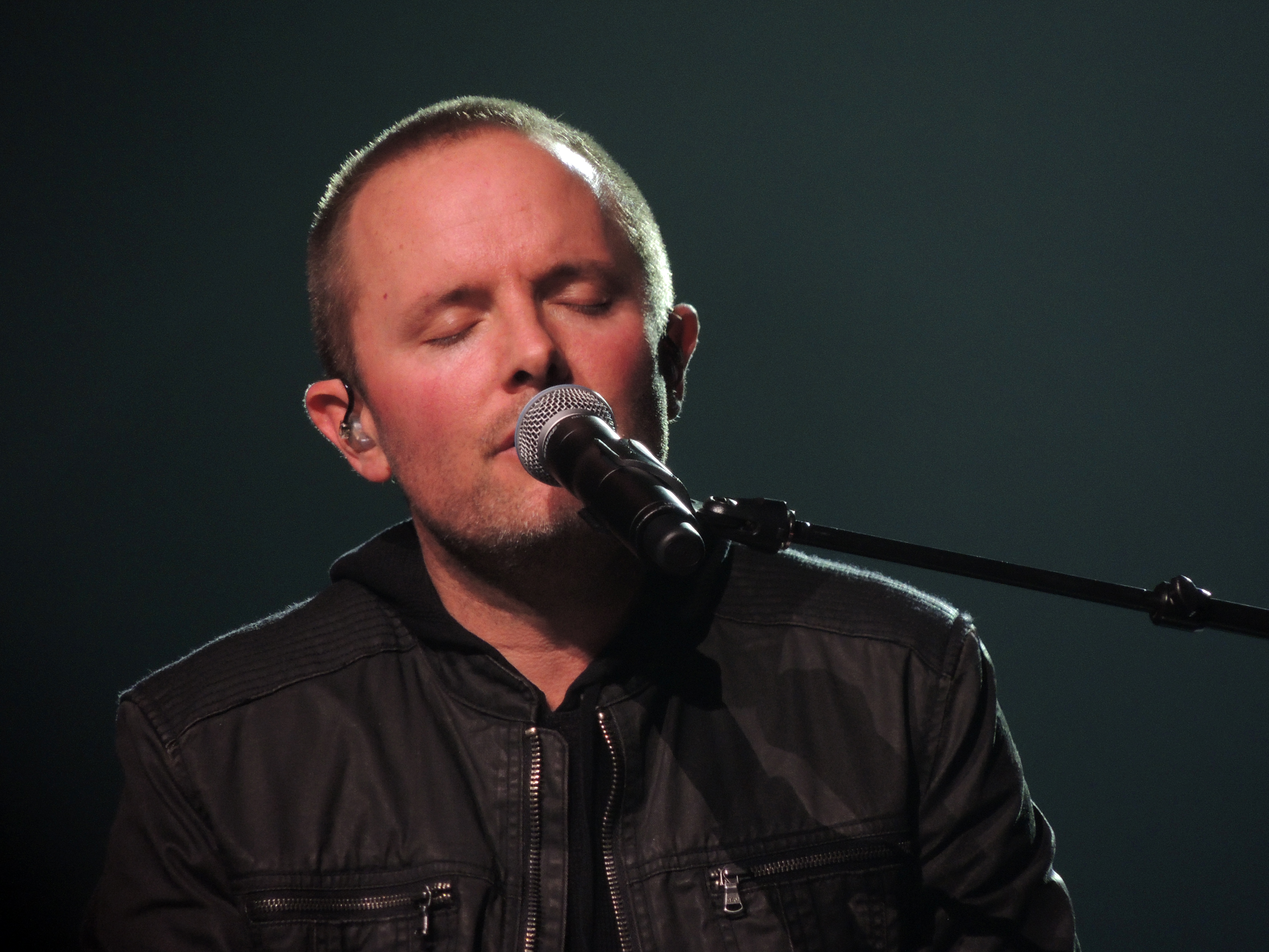 Chris Tomlin performing at the Scottrade Center in St. Louis, Missouri during his "Burning Lights" tour.